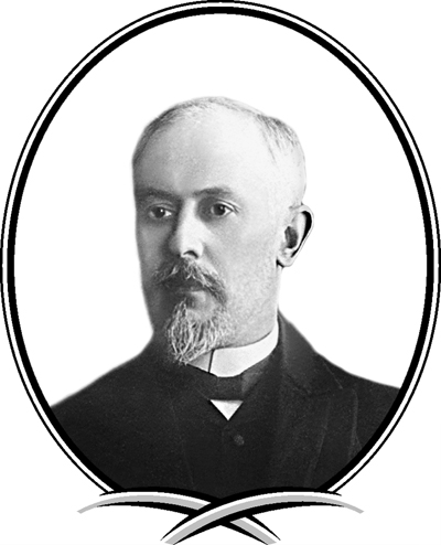 Alexei Alexandrovich Kulyabko